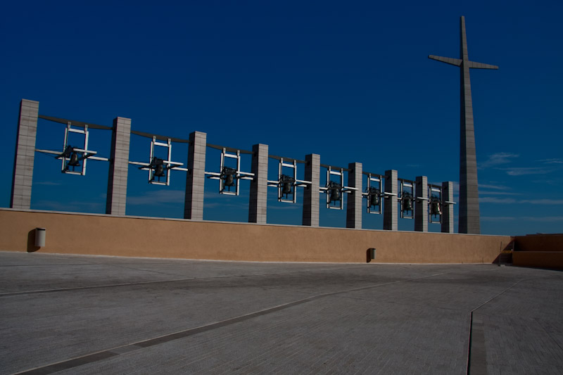 Summer/July 2009